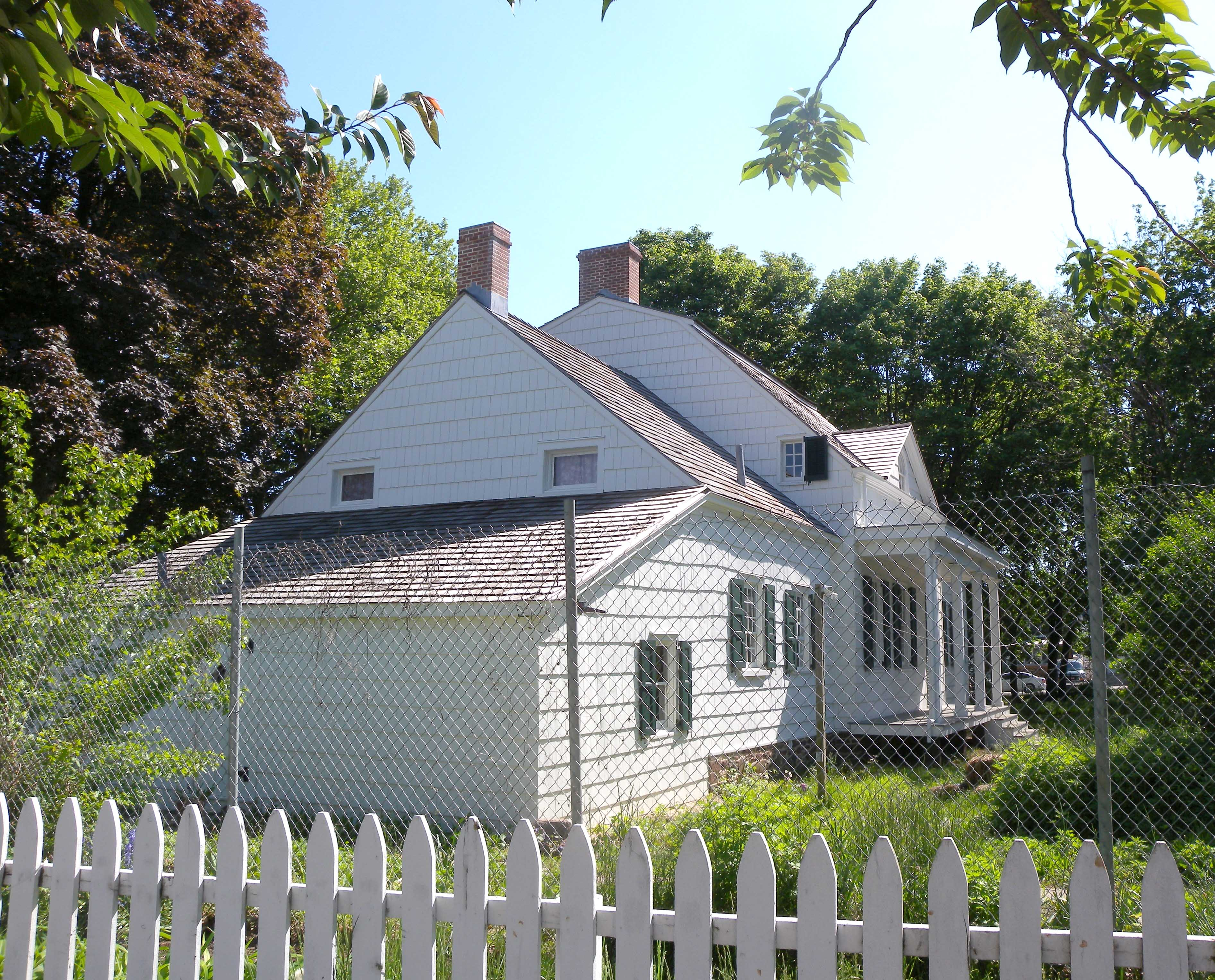 Looking southwest at Hendrick I. Lott House on a sunny early afternoon. NYCLPC designation 1989.